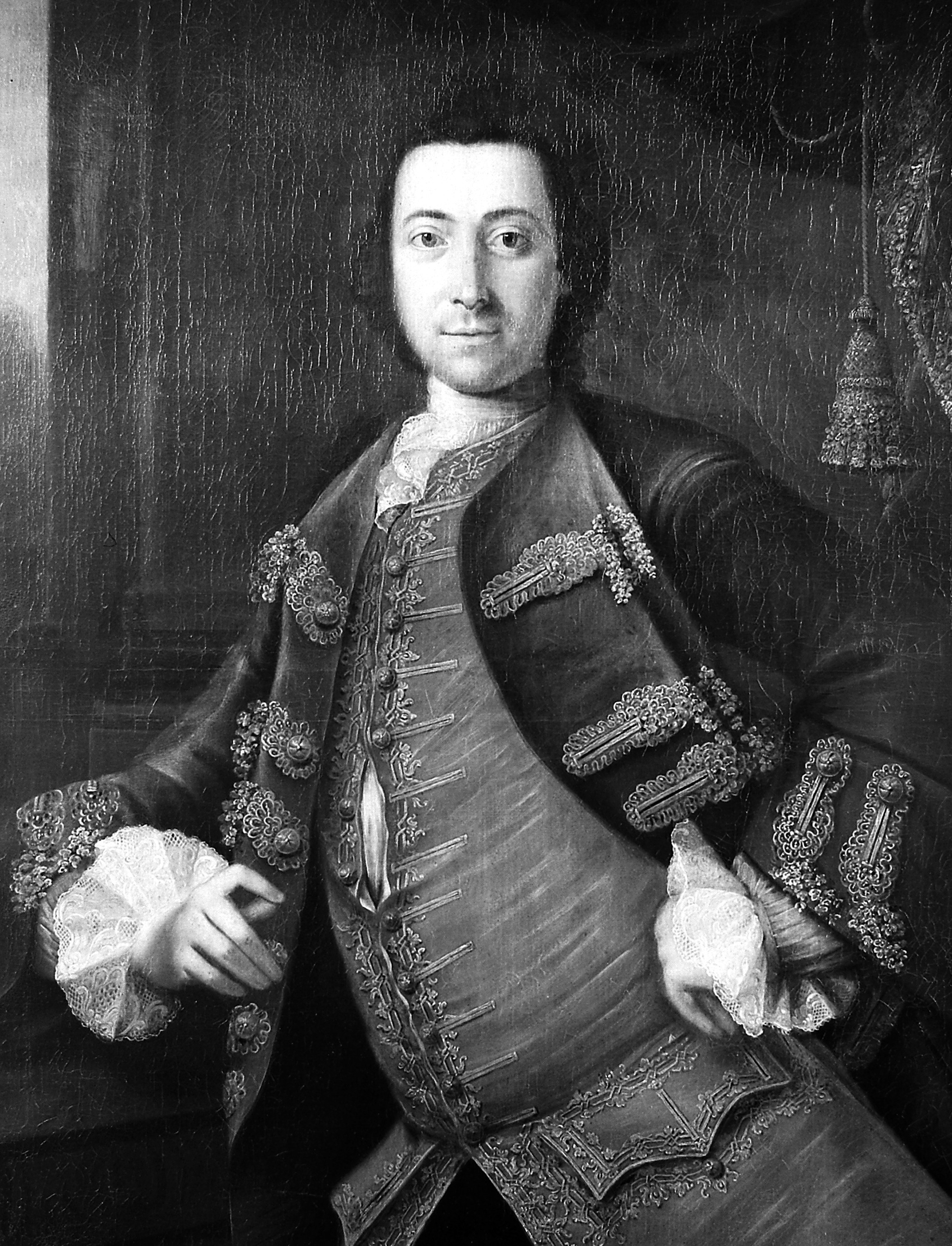 Portrait of Sir Nathaniel Barry (1725?-1785)